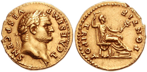 Titus, as Caesar, AV Aureus. 73 AD. T CAES IMP VESP CENS, laureate head right / PONTIF TRI POT, Titus seated right, holding sceptre and branch. Cohen 168, Calicó 753.